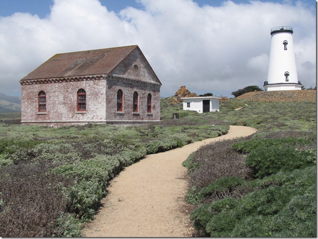 The Piedras Blancas Light Station — with fog, in San Luis Obispo County, California. View of the fog signal building, the fuel oil house, and the lighthouse.